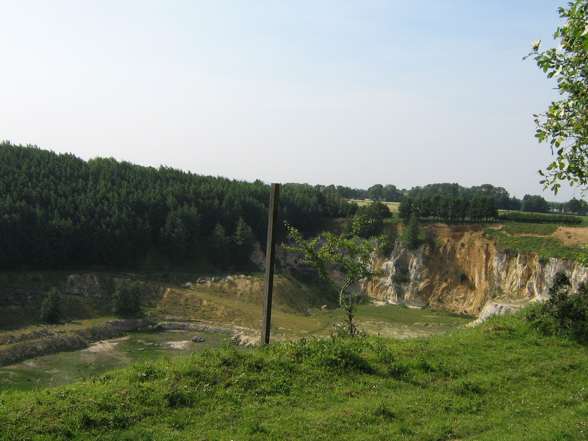 't Rooth, Mergraten community, NL: Open-pit marl mine.